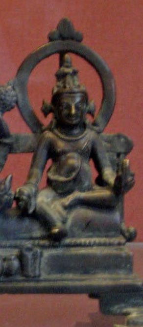 Kubera taken at the British Museum, Crop of Image:British Museum Ganesha Matrikas Kubera.jpg